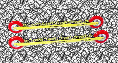 Pair of Skiroll for skating